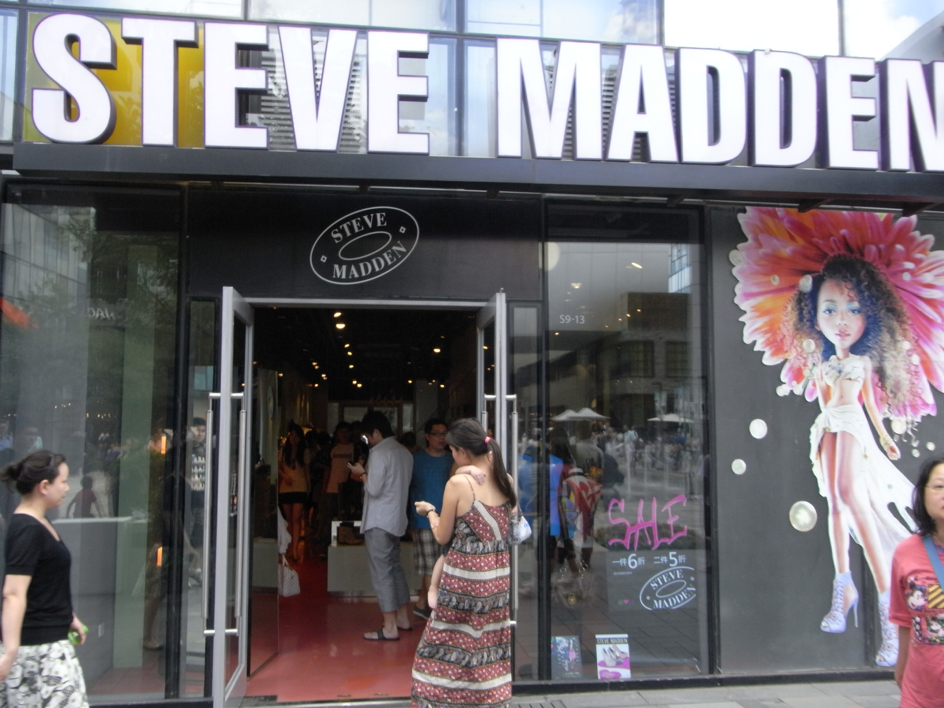 Steve Madden shop - Sanlitun, Chaoyang District, Beijing